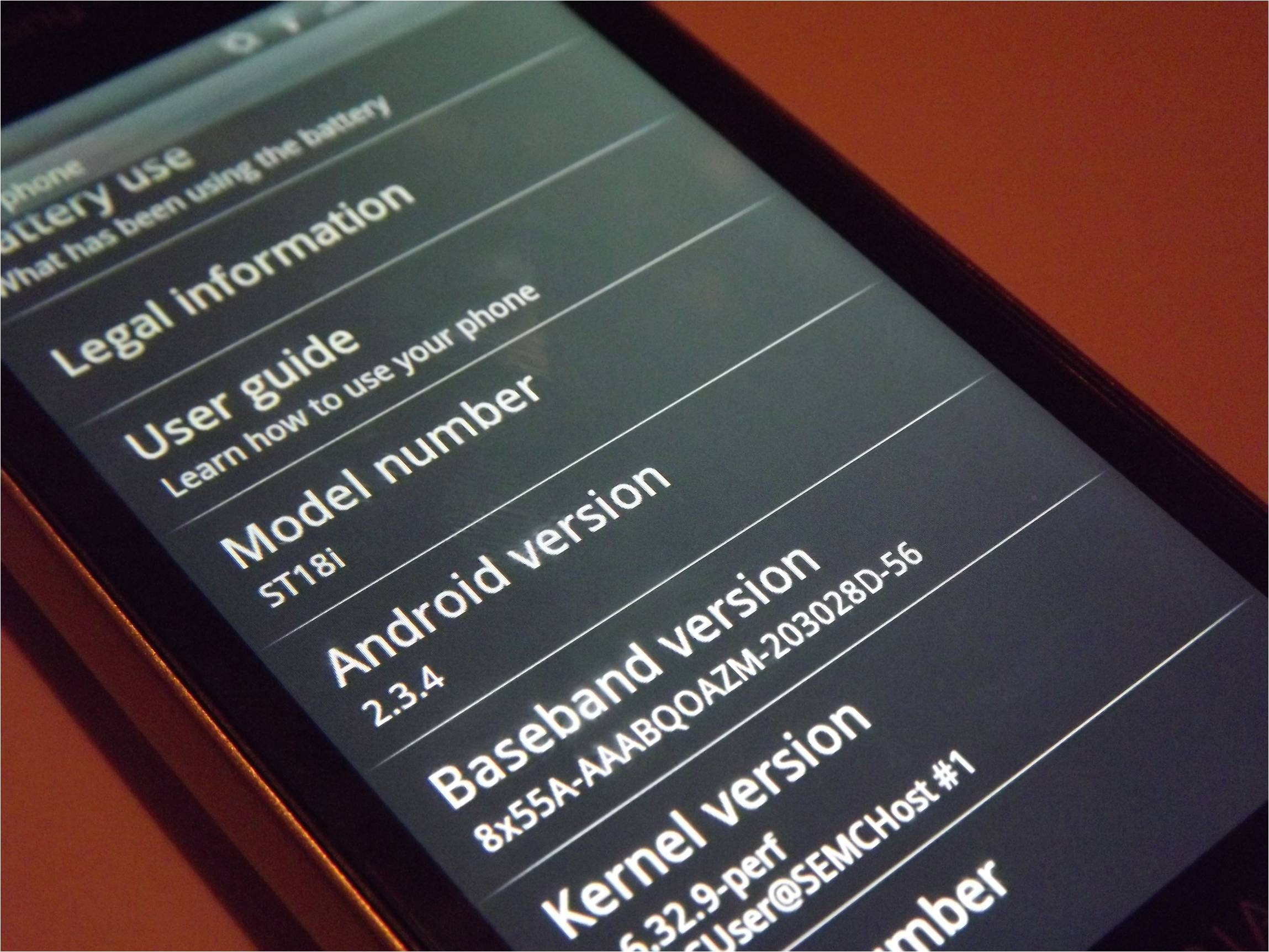 xperia ray android version 2.3.4